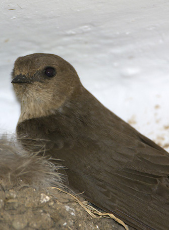 Dusky crag martin bird show in Kutch,Gujrarat,India